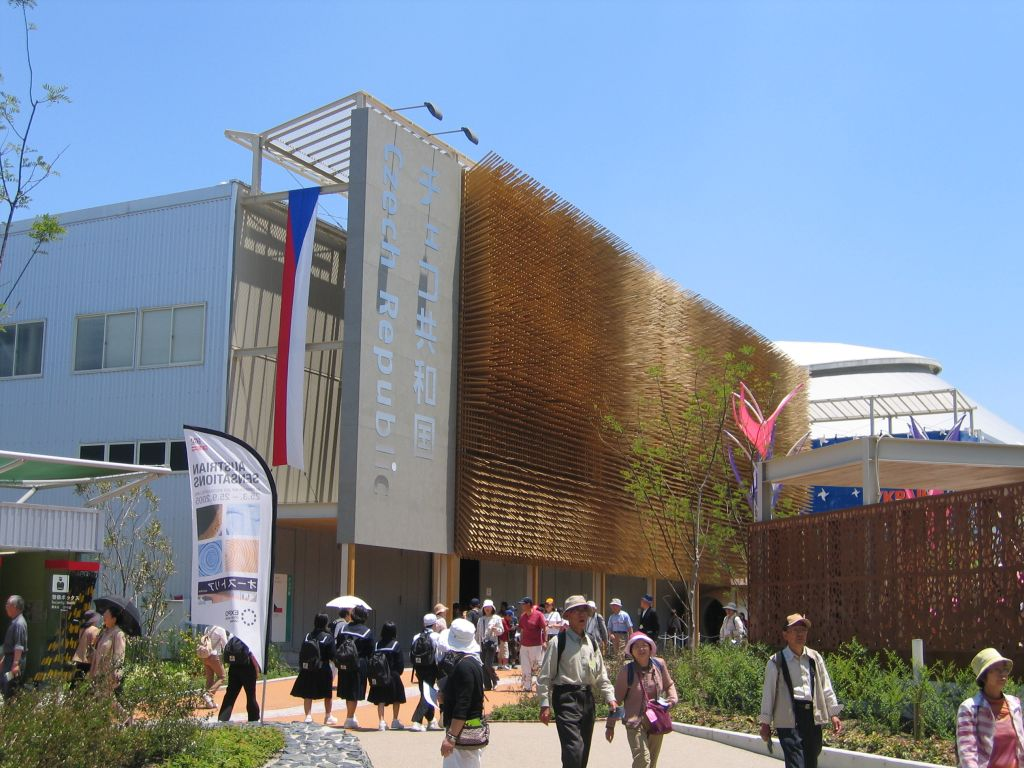 Façade of the Czech Republic pavillion at Expo 2005 (Nagoya, Aichi, Japan.)Czech pavillion